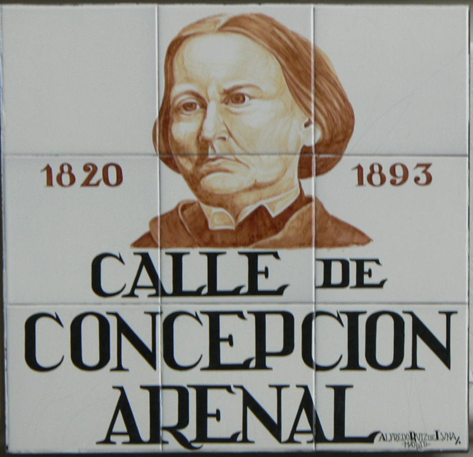 Sign of Calle de Concepcion Arenal (street, Centro district) in Madrid (Spain).